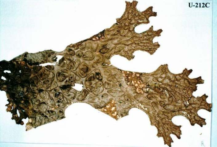 Lobaria pulmonaria (L.) Hoffm., 1796 Photograph of a herbarium specimen showing the upper surface of a lobe. L. pulmonaria was collected growing on a tree trunk at the Humboldt Field Research Institute at Eagle Hill, Stueben, Maine, USA; collected by E.C. Uebel, identified by Dr. D.H.S. Richardson (No. U-212, 14 Jun 2001). (Lat. 44o27.585 N, Long. 67o56.016 W)